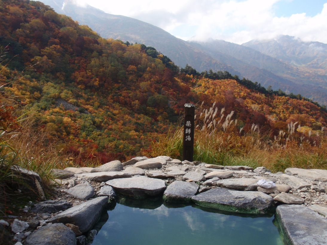 Renge spa Yakusi no yu